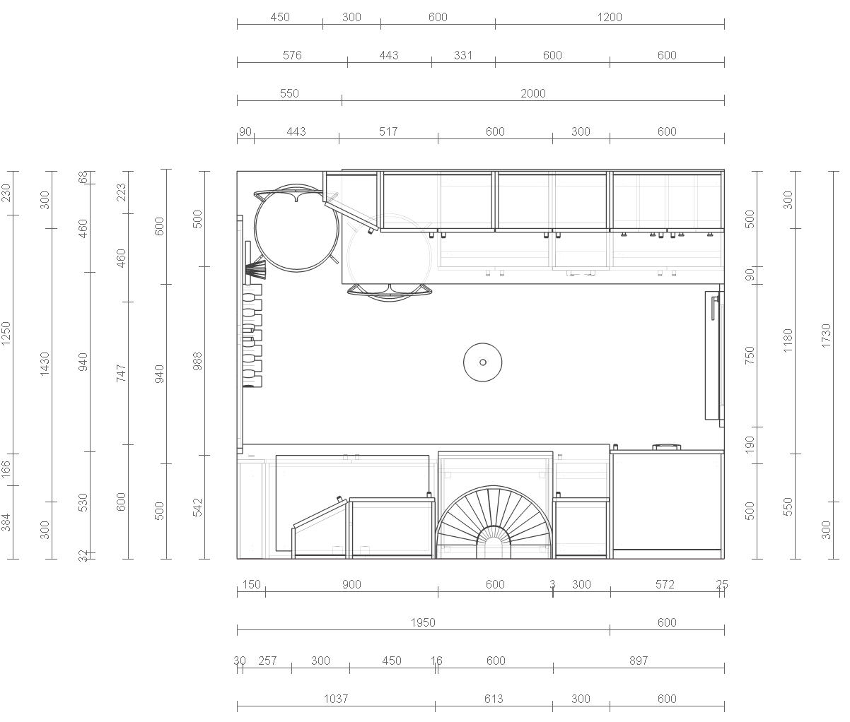 A small kitchen - technical drawing.